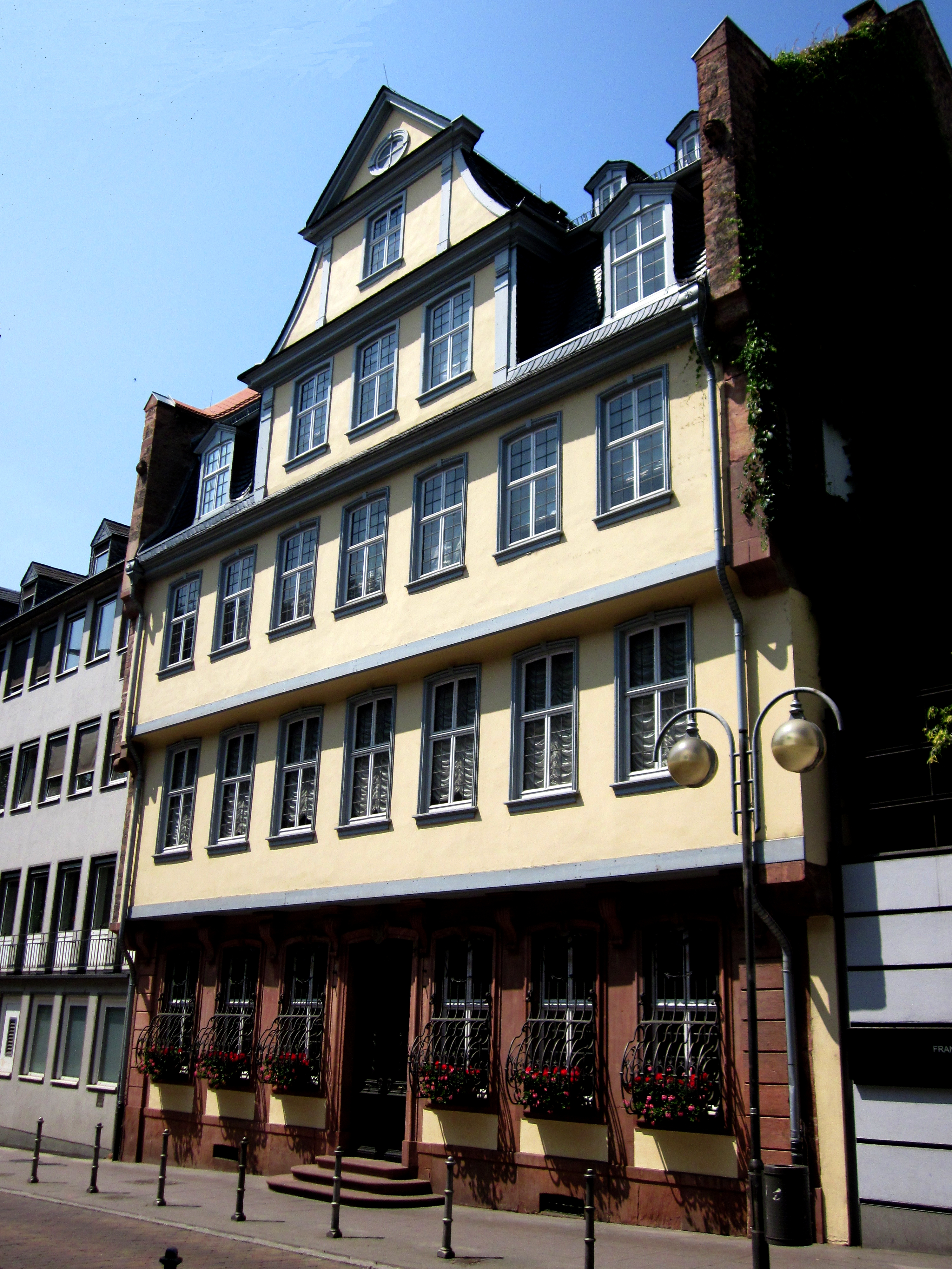 Frontview of the Goethe House in Frankfurt am Main, Germany.